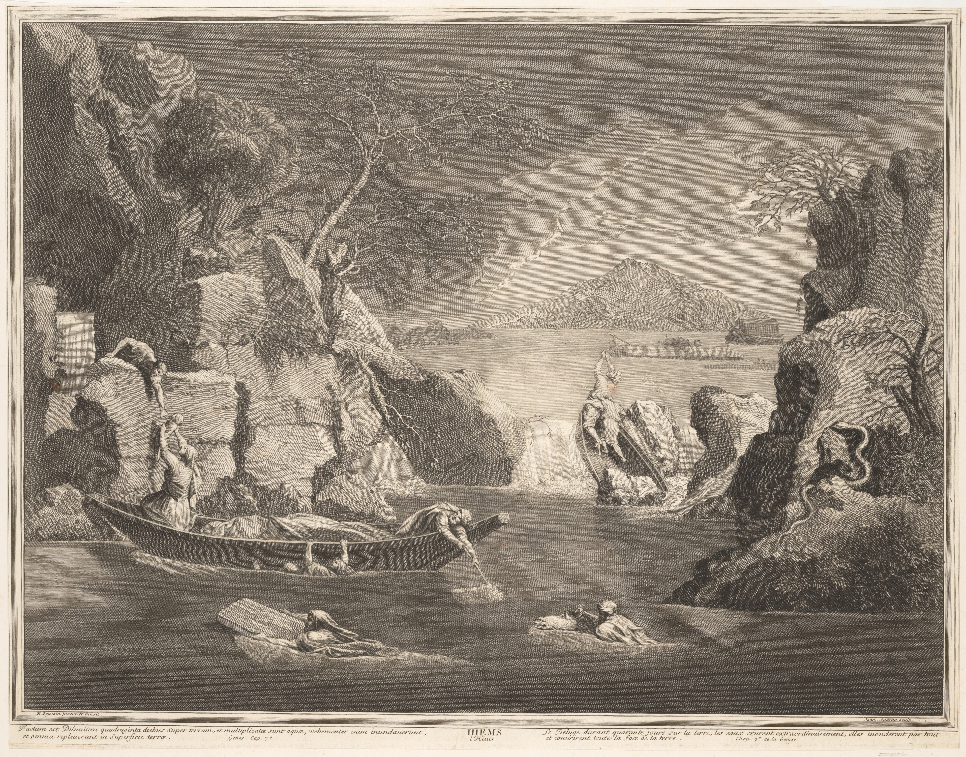 Print; Prints